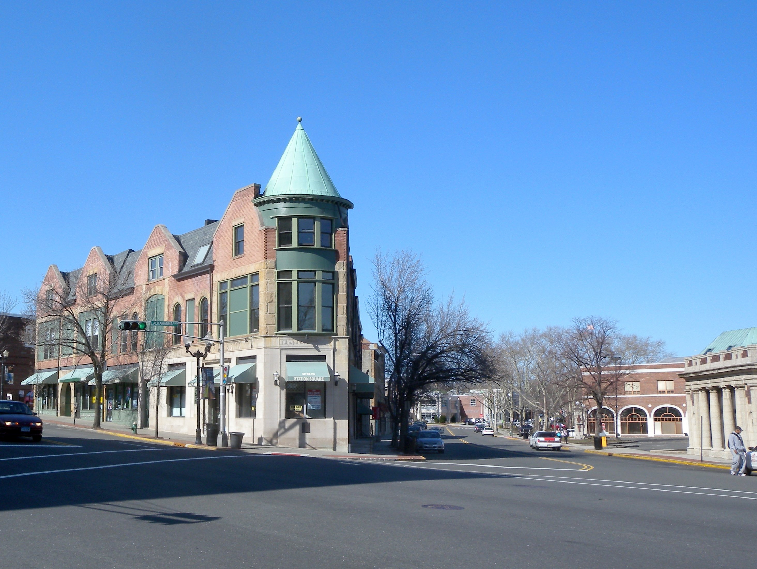 Looking north across Bloomfield Avenue and along Lackawanna Plaza, on a sunny early afternoon.